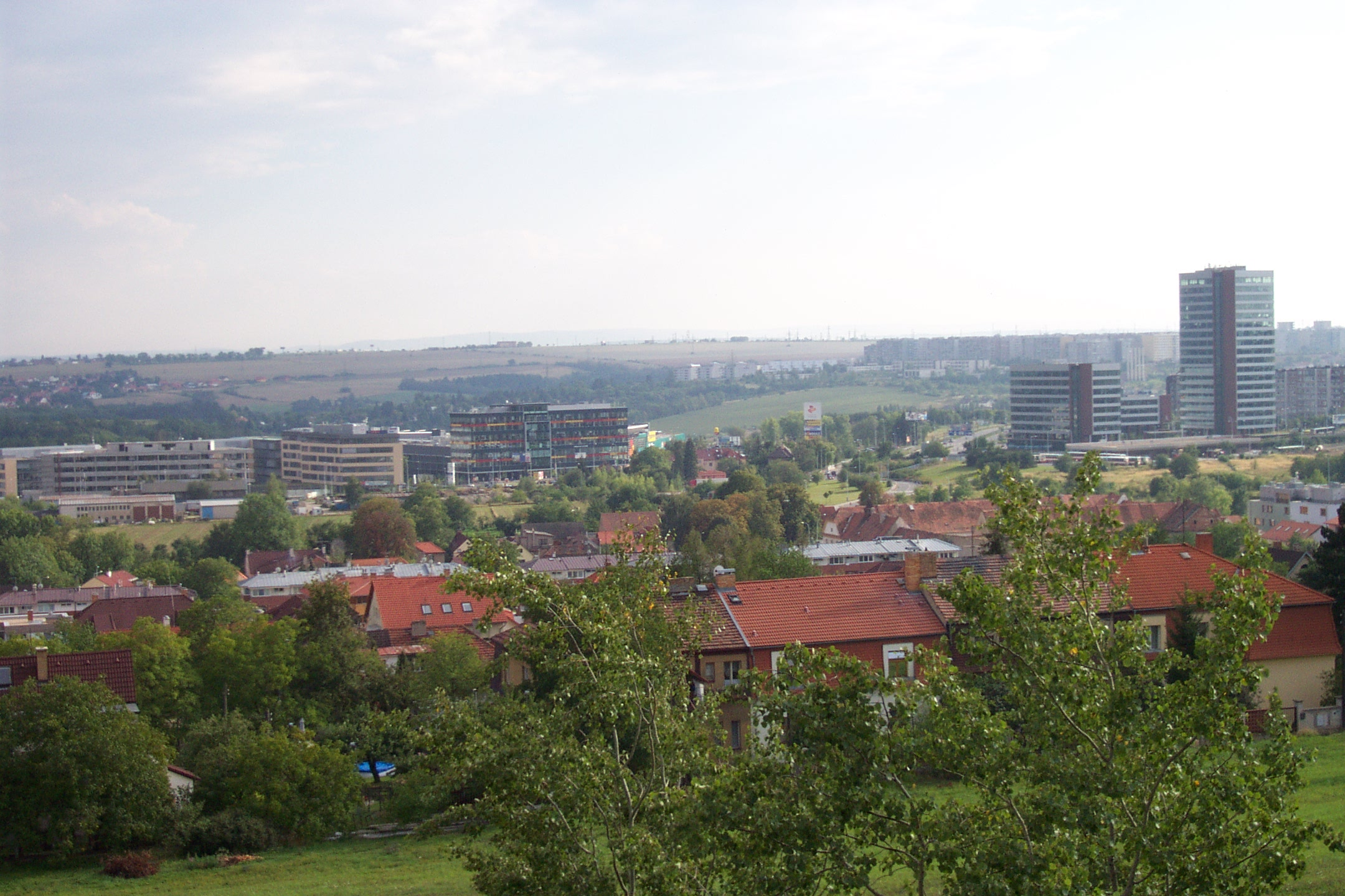 Prague-Jinonice, Czech Republic.